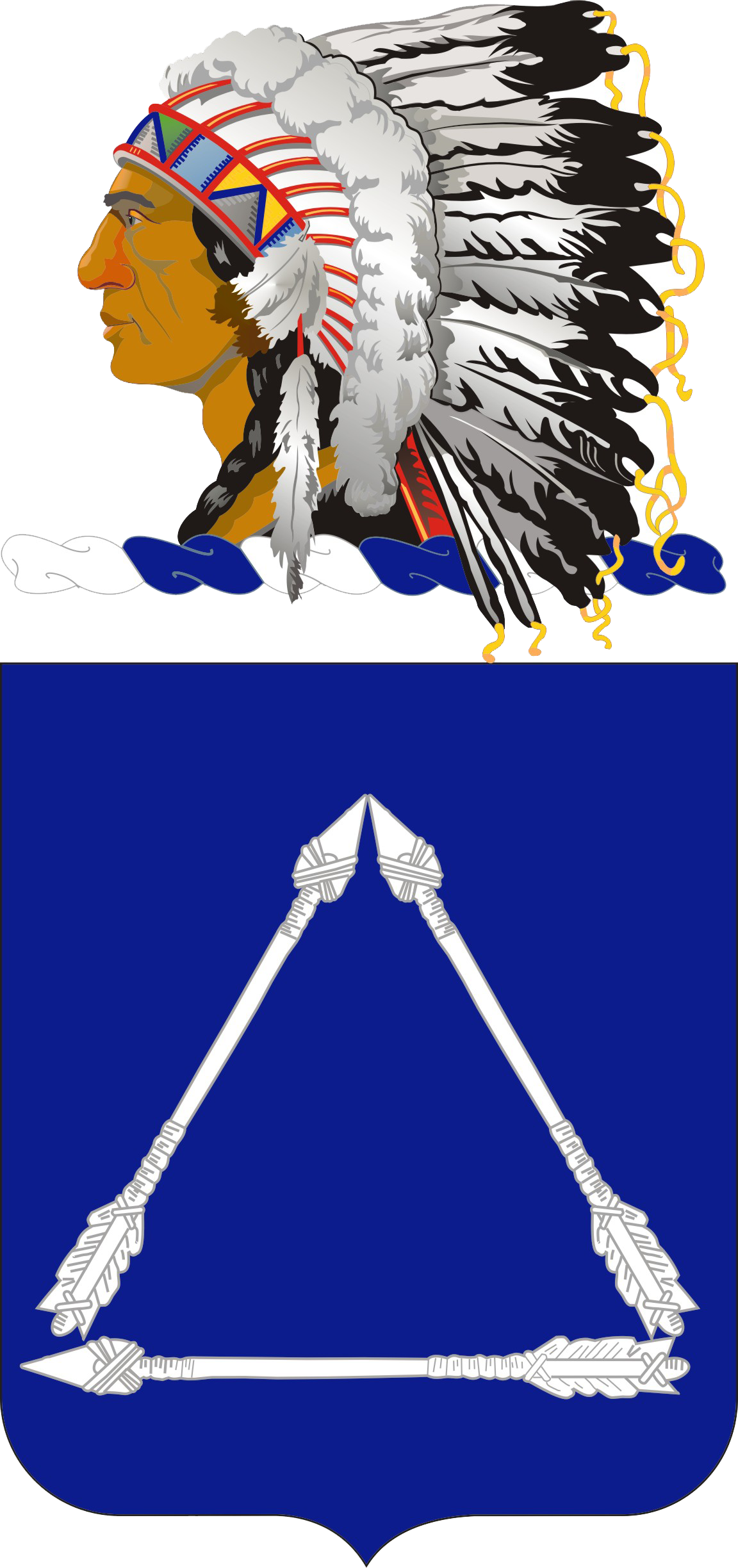 Coat of Arms of the 180th Cavalry (formerly Infantry) Regiment of the United States Army.